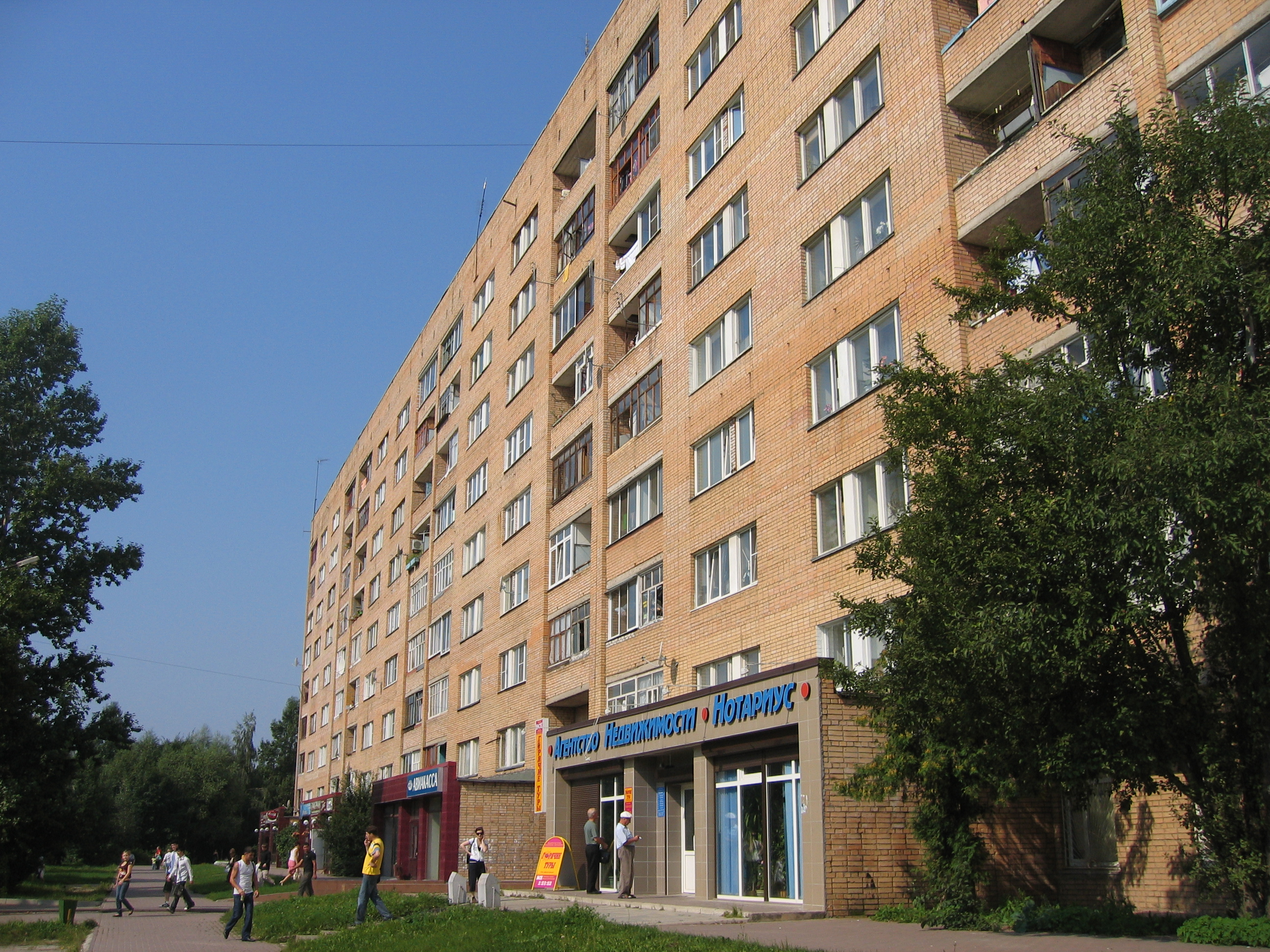 Houses near the train station in Naro-Fominsk, Russia